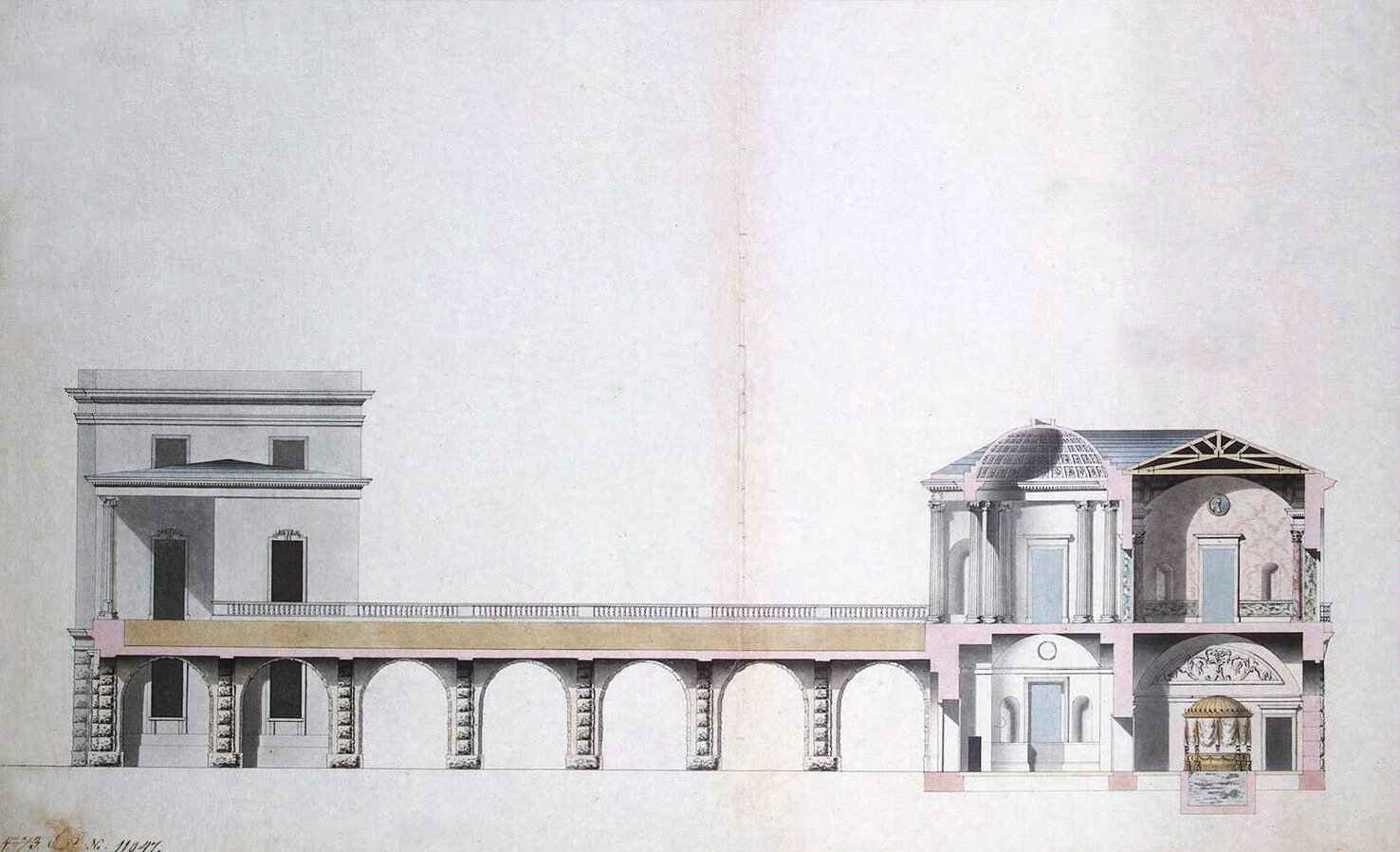 Charles Cameron. The project is a hanging garden in Tsarskoye Selo. 1780